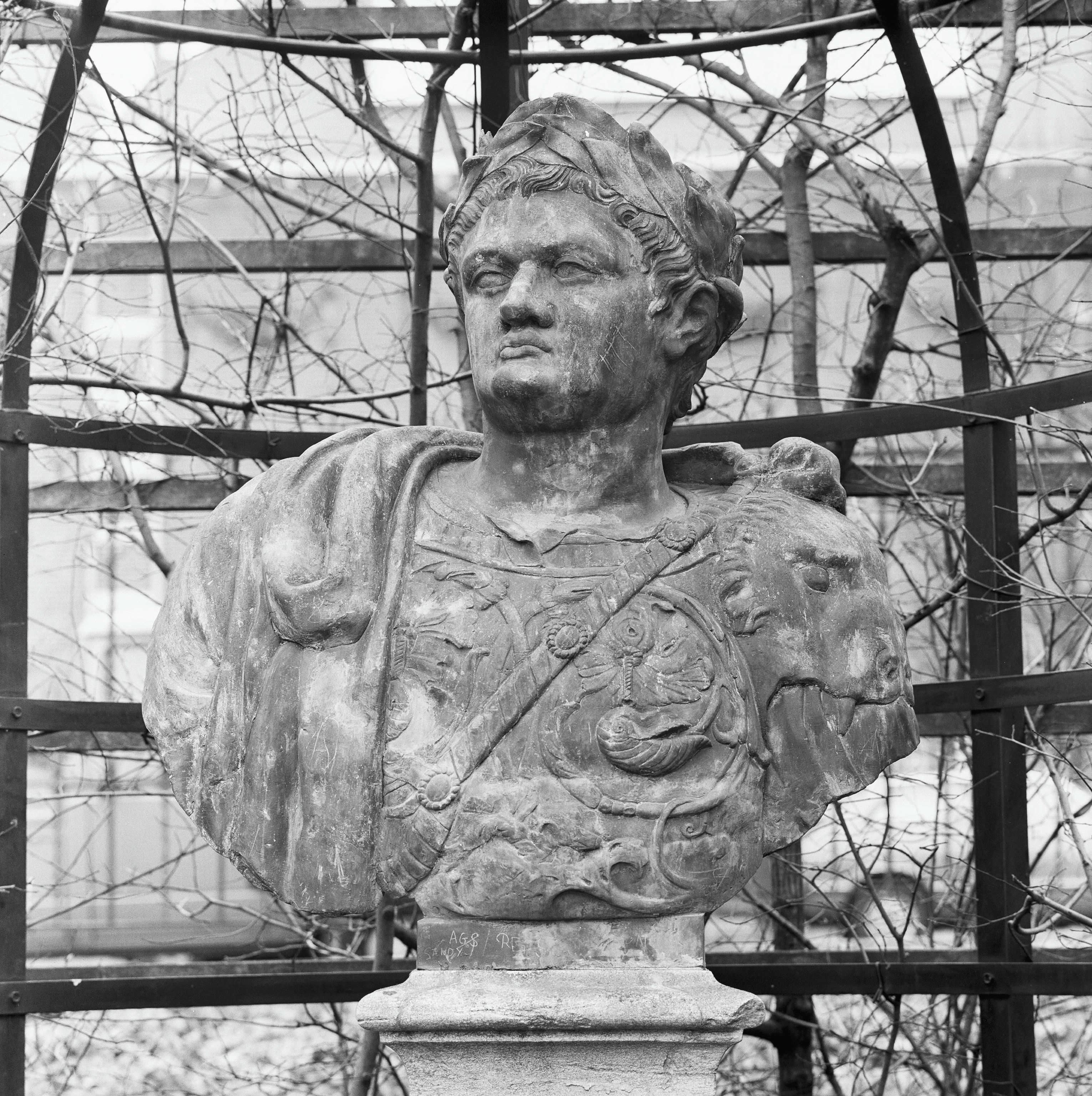 Part of a series together with File:Loden beeld in tuin - Amsterdam - 20011289 - RCE.jpg